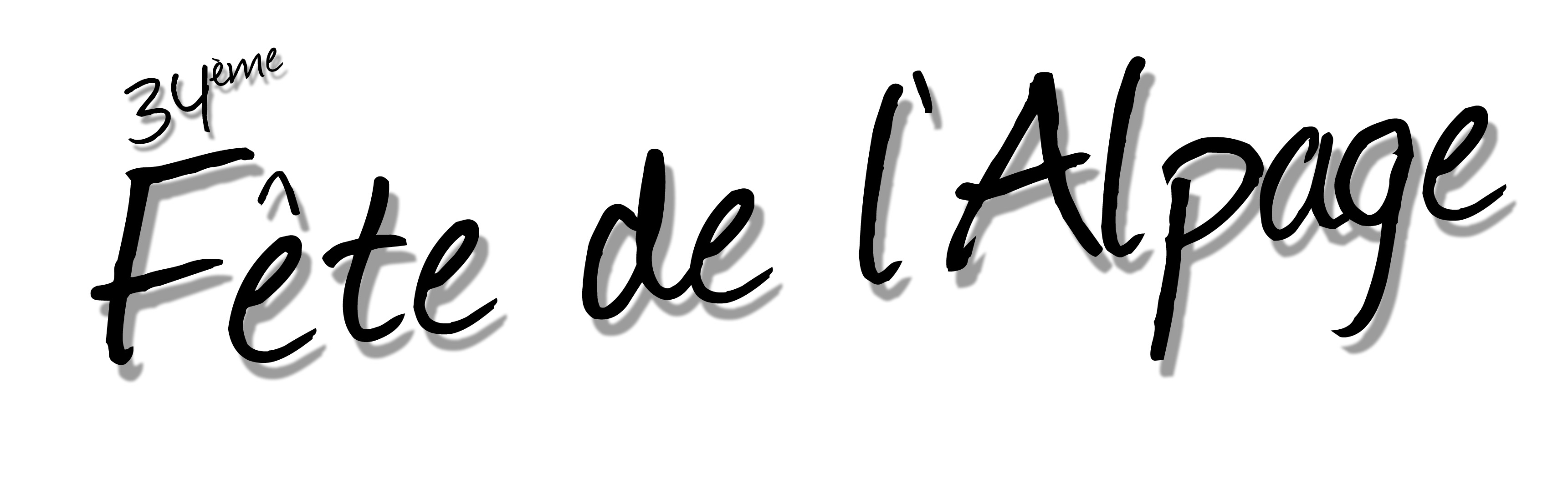 logo of the "Fête de l'Alpage" 34th edition